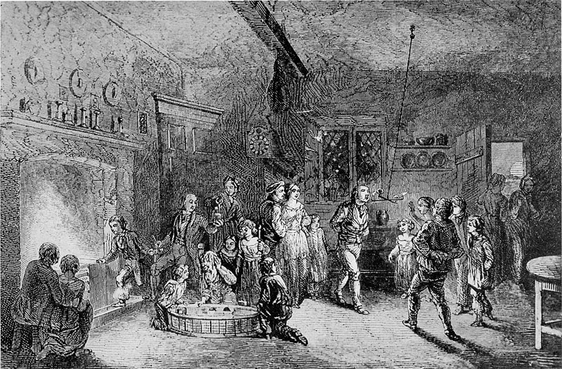 Image from The Book of Hallowe'en. Caption "Hallowe'en Festivities. From an Old English Print."